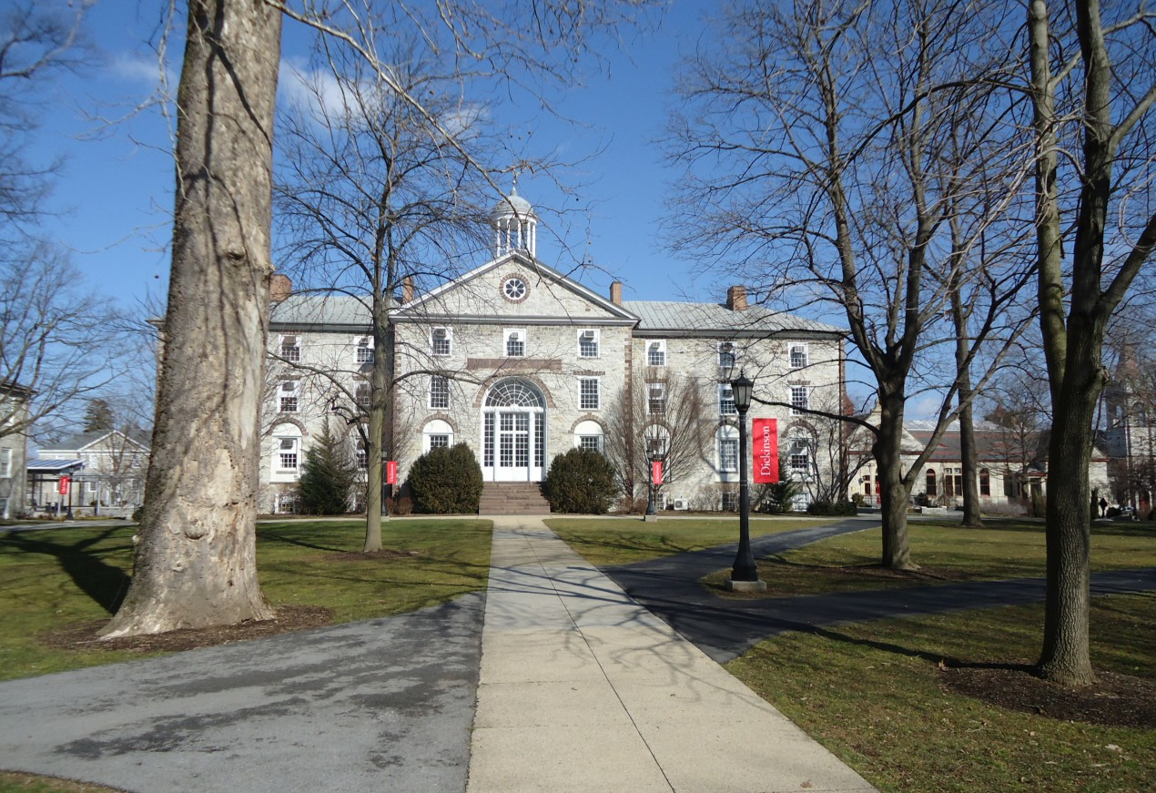 Dickinson College in Carlisle, Pennsylvania.